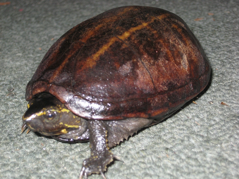 Striped Mud Turtle, Commonly found in the south-eastern U.S.